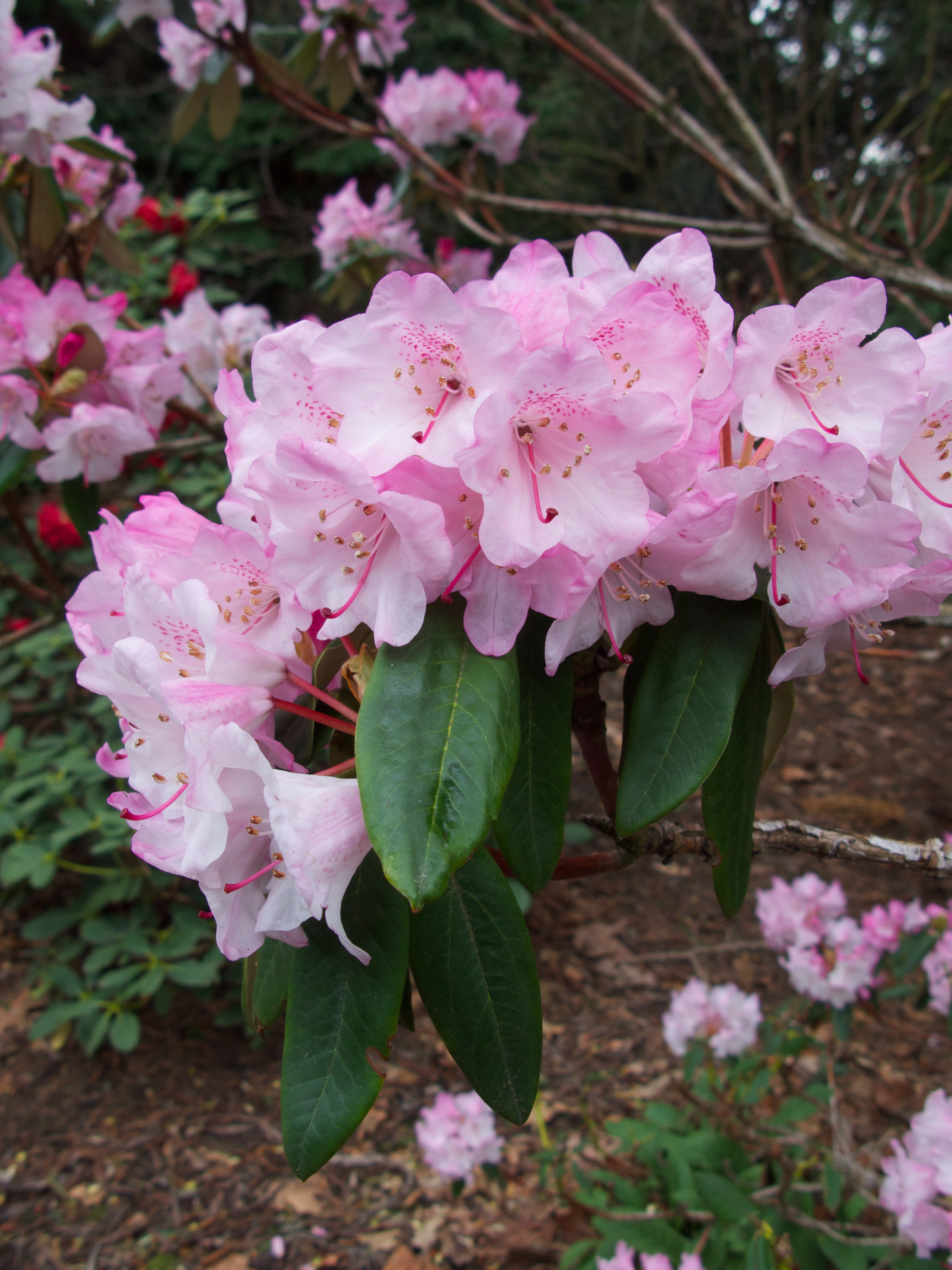 Rhododendron principis Bureau & Franch. - growing in the Royal Botanic Garden Edinburgh. Accession Number 19980772A. Material of cultivated origin.